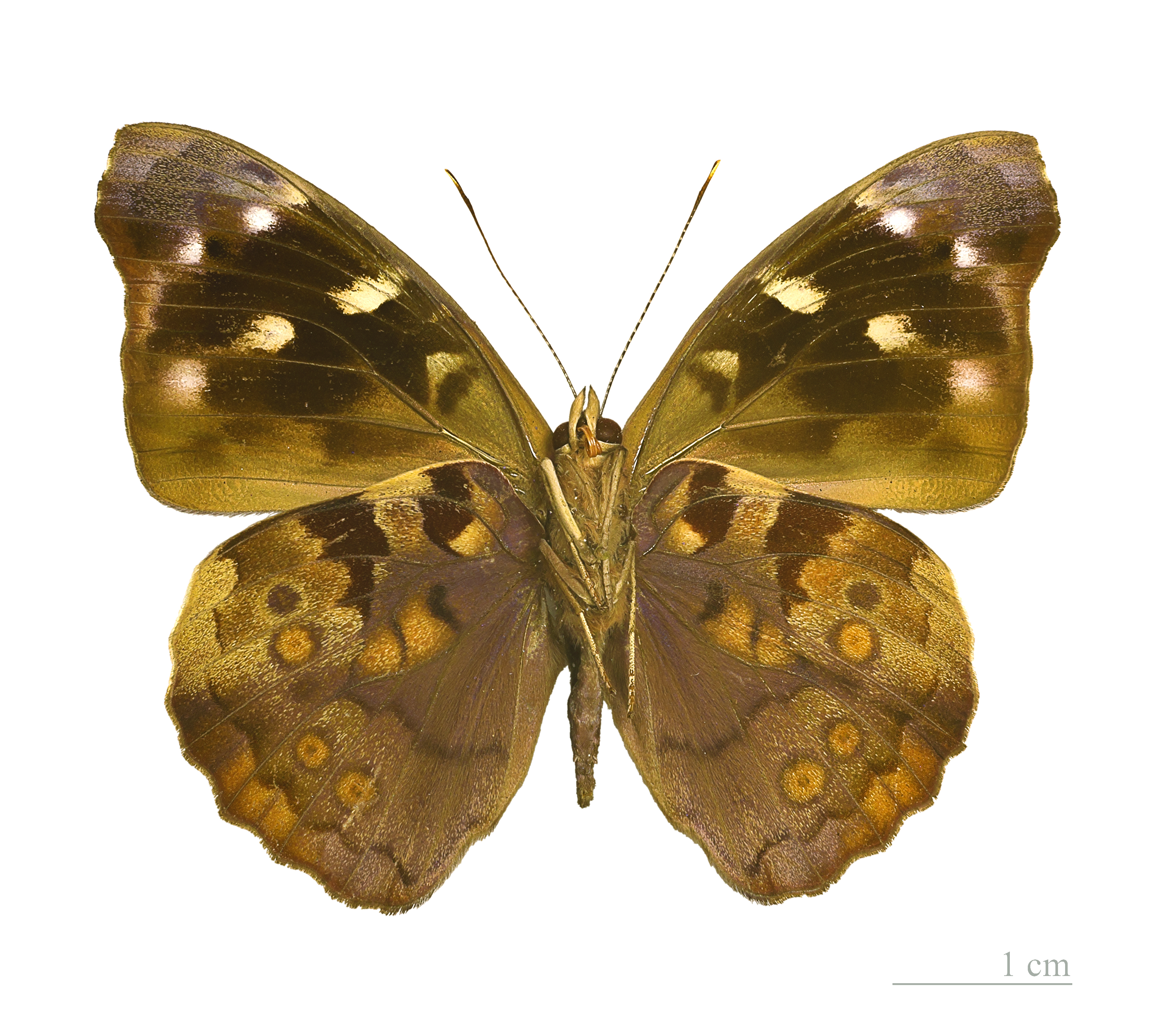 ♂ - Two views of same specimen Locality: Caranavi Province, Bolivia